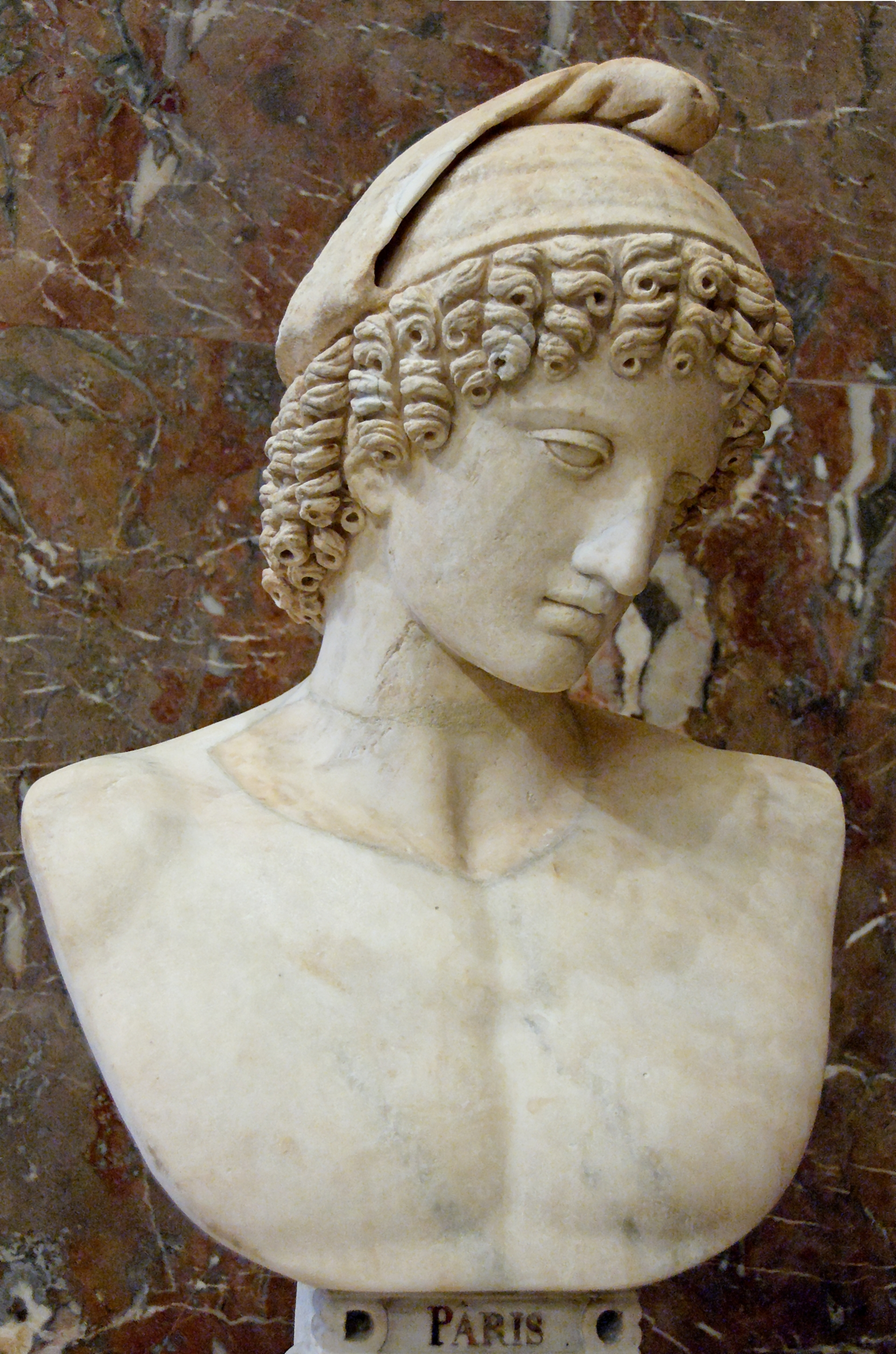 Portrait of Ganymede. The antique head comes from a group representing the abduction of Ganymede by Zeus, a statuary type known by several copies of the entire group and by separate heads, like this one. Naked bust and pedestal are modern additions. Ganymede's pose reproduces (and reverses) that of the statue of Paris by Greek 4th century BC sculptor Euphranor (cf. Louvre Ma 4708). Roman artwork of the Imperial Era (2nd century CE), found in 1784 near the tomb of Caecilia Metella (south of Rome).